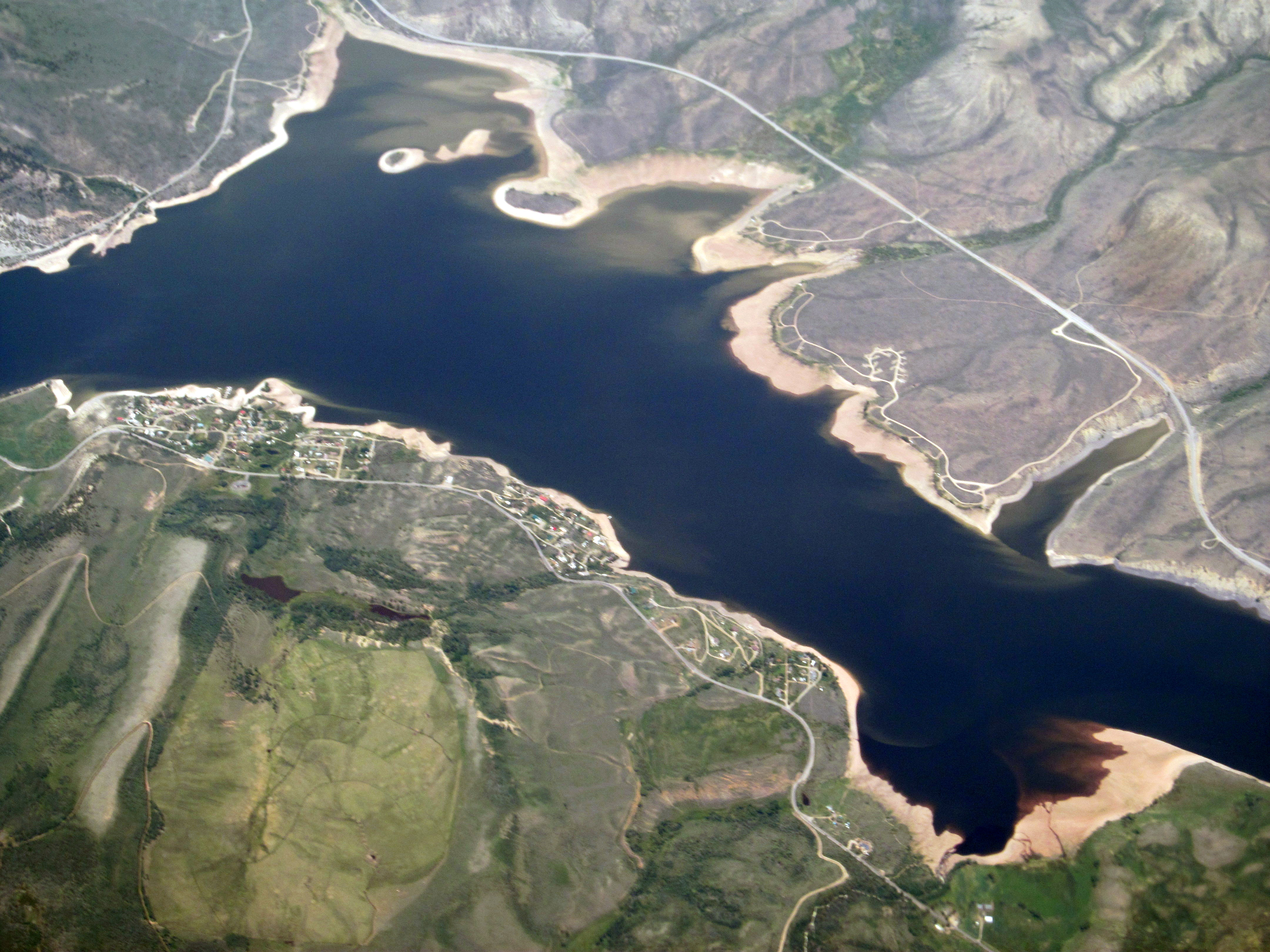 Aerial view of Green Mountain Reservoir in June 2017